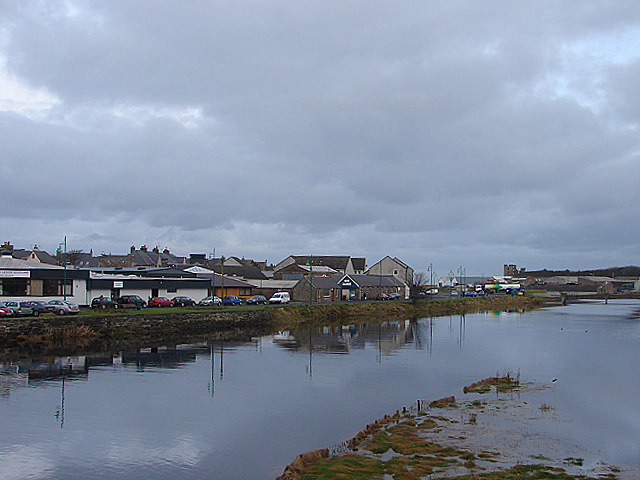 River Thurso Viewed from Thurso Bridge, looking downstream towards Thurso Bay. The remains of Thurso East Castle are just visible, centre right.